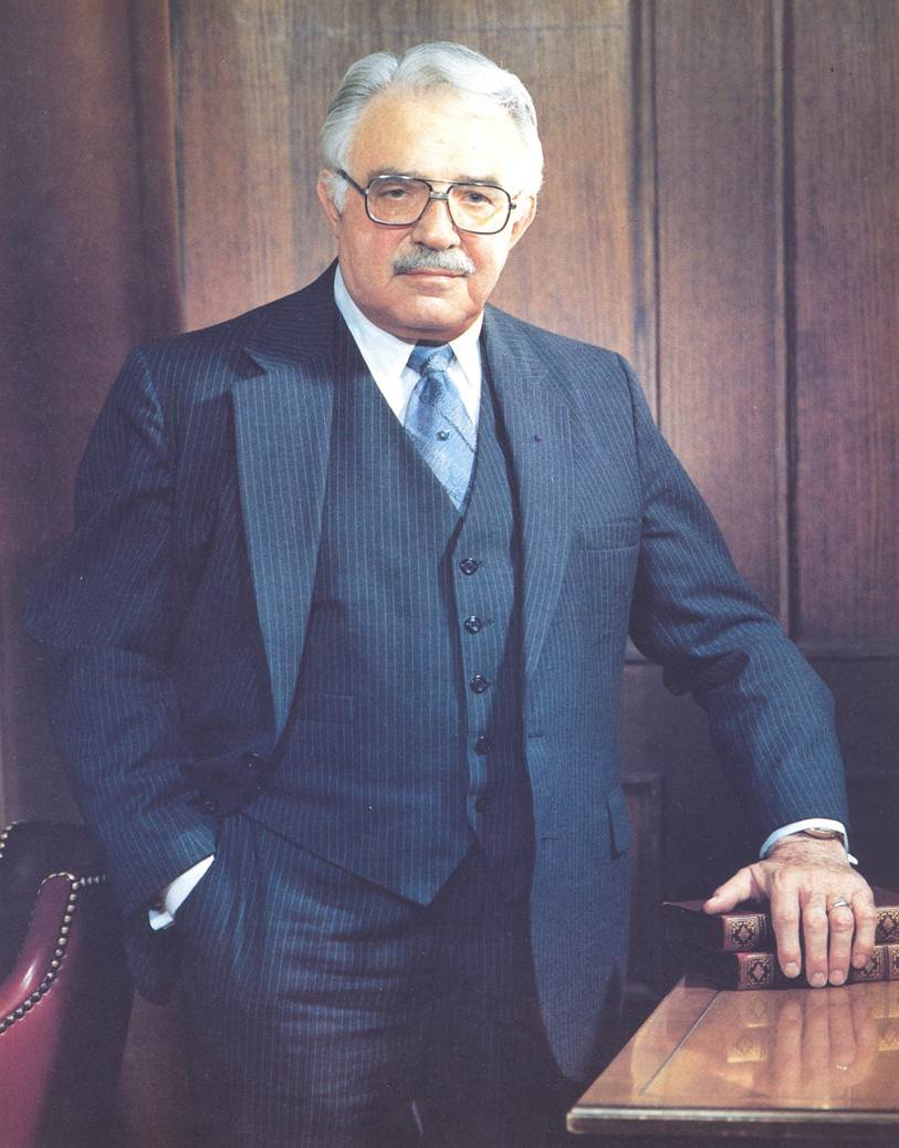 Photo of Dr Joseph Janse from cover of book by Dr. Reed Phillips